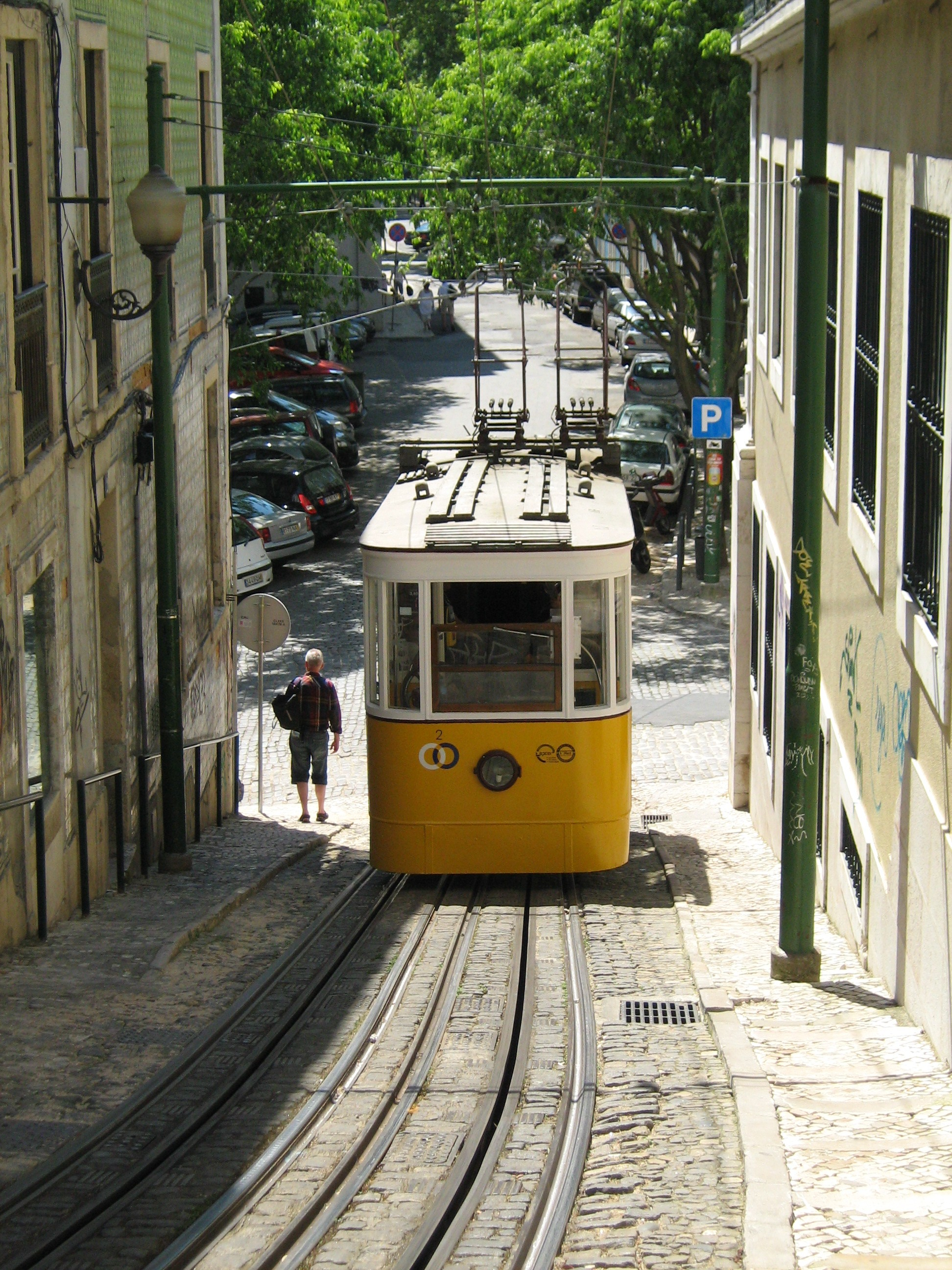 Elevador do Lavra, the first funicular in Lisbon. April 2013